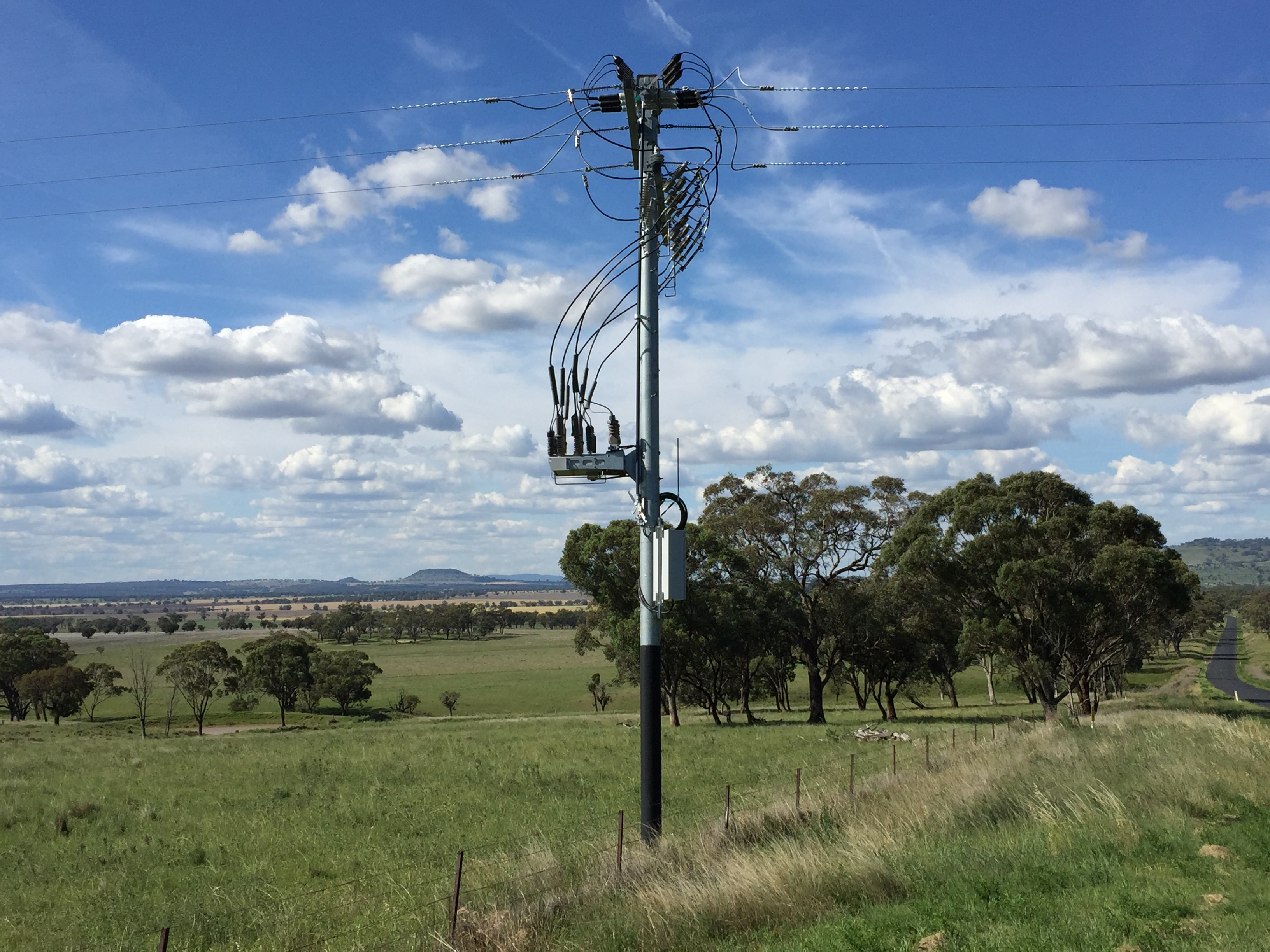 A Recloser Installation on a Rural Distribution Feeder. Note the separate control system in the box on the middle of the pole, with an antenna for remote control. The Circuit Breaker is in the rectangular box on the left of the pole.